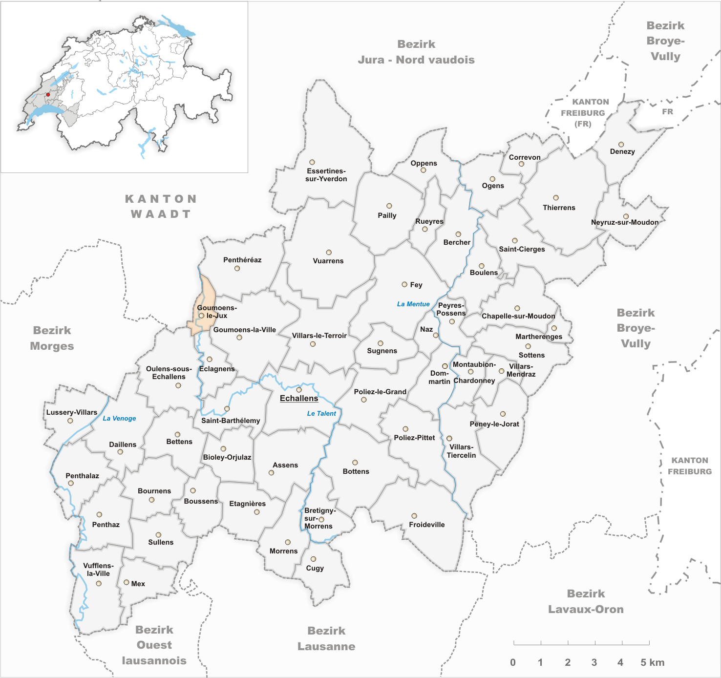 Municipality Goumoens-le-Jux